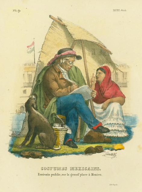 Ecrivain public sur la grand place a Mexico (Public writer in the great square of Mexico) from the book Costumes civils, militaires et réligieux du Mexique (Belgium, 1828)